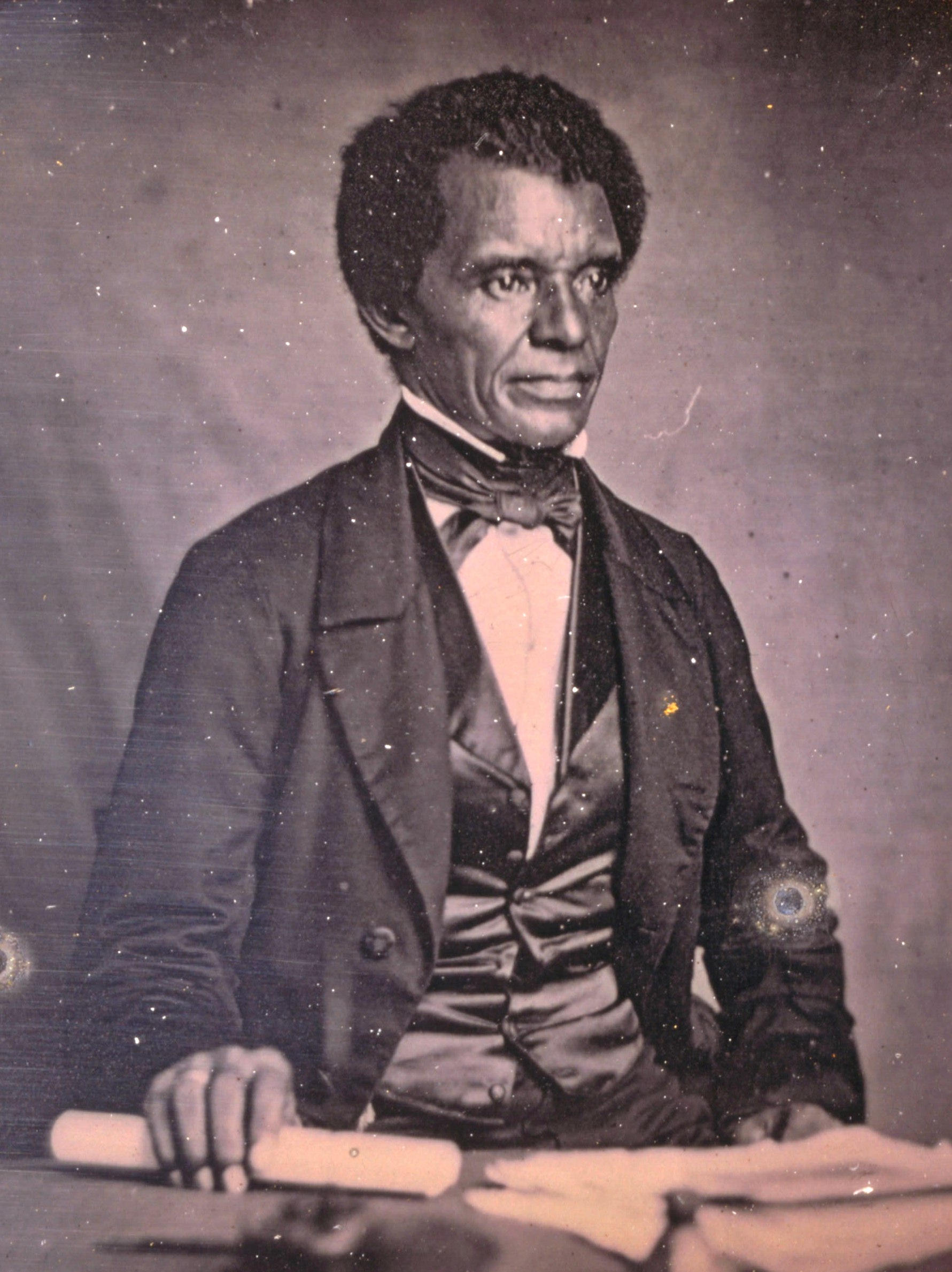 Beverly Yates, half-length portrait, facing slightly right, seated at table, holding rolled piece of paper. Vice president of Liberia. Served as the Associate Justice of Liberia and the Judge of the Court of Quarter Sessions and Common Pleas for Montserrado County. Helped found the Ancient, Free, and Accepted Masons, in 1867.